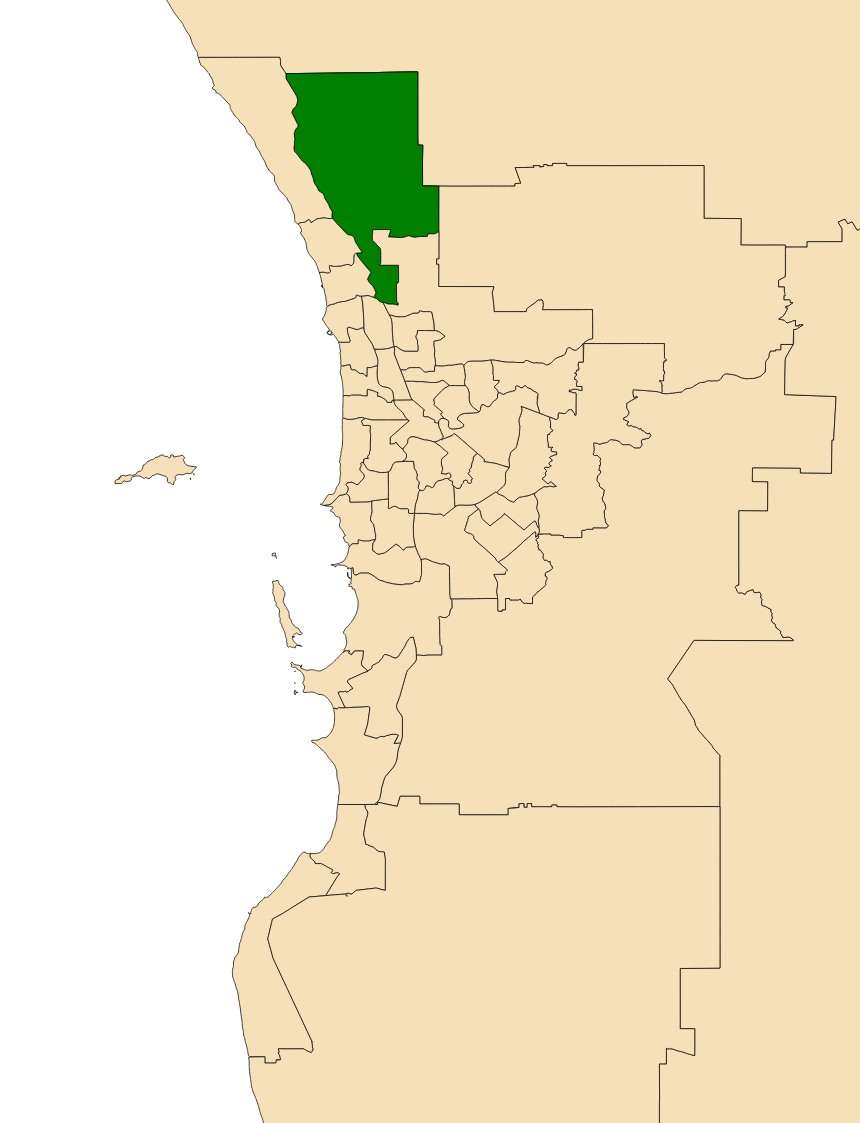 Location of the electoral district of Wanneroo in the Perth metropolitan area, Western Australia as of the 2017 WA state election.